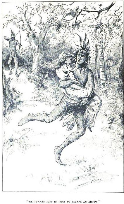 Illustration in the romance novel "Virginia, A Romance of the Sixteenth Century," based on the life of Virginia Dare, who disappeared from the ill-fated Roanoke Colony